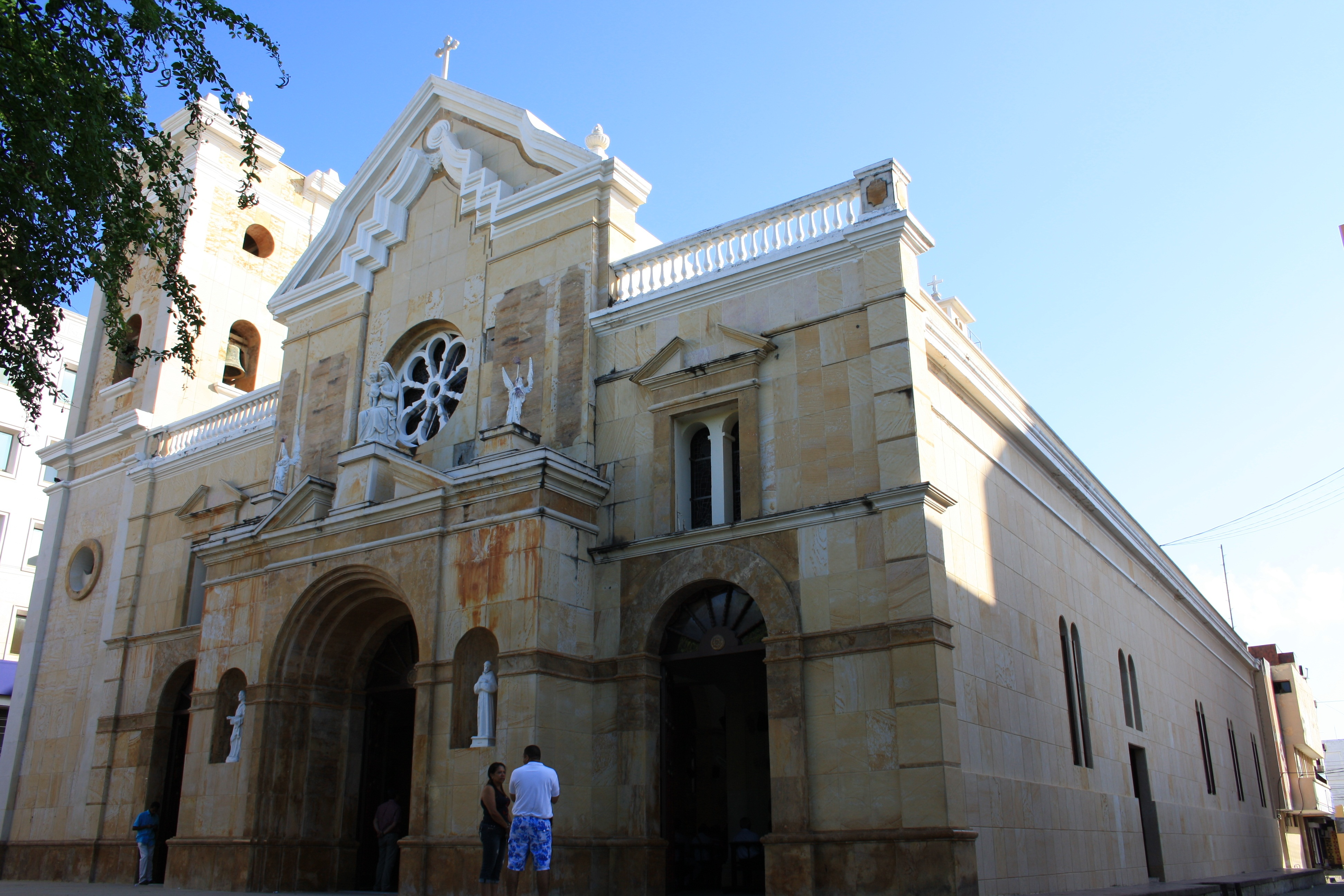 LA CATEDRAL DE RIOHACHA